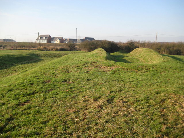 Cippenham Moat (2) The earthworks that create this dry moat are all that remains of the site of a Royal Palace of King Henry III (1207 - 1272), who reigned for fifty six years from 1216 until his death. The workings middle right may have been a ramp up to the main palace entrance.